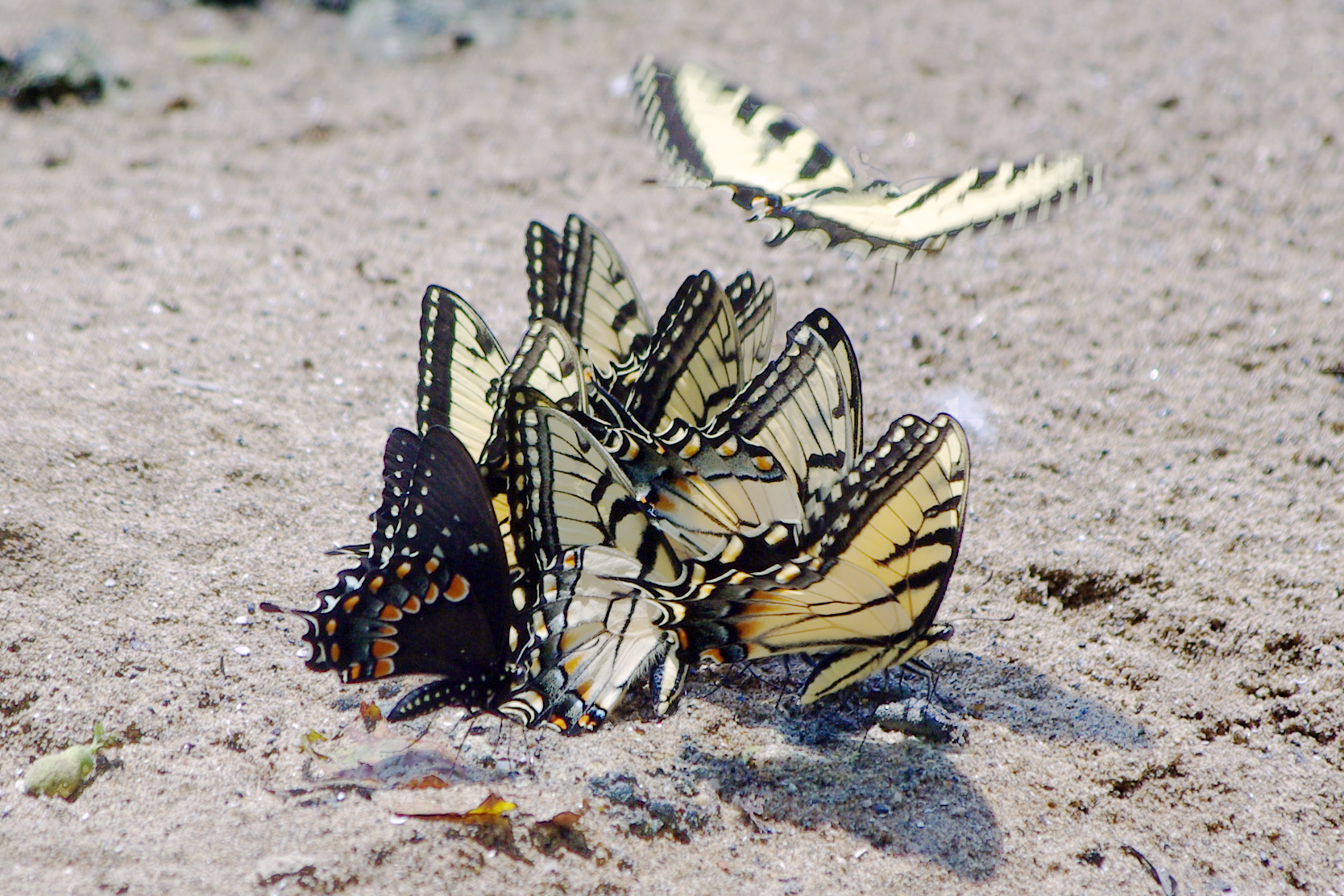 Group of mud-puddling Eastern Tiger Swallowtail (Papilio glaucus) butterflies, accompanied by one Spicebush Swallowtail (Papilio troilus), by the Potomac River near Washington DC